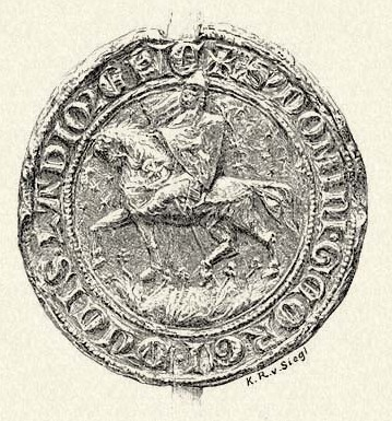 Boleslaw-Yuri II of Galicia